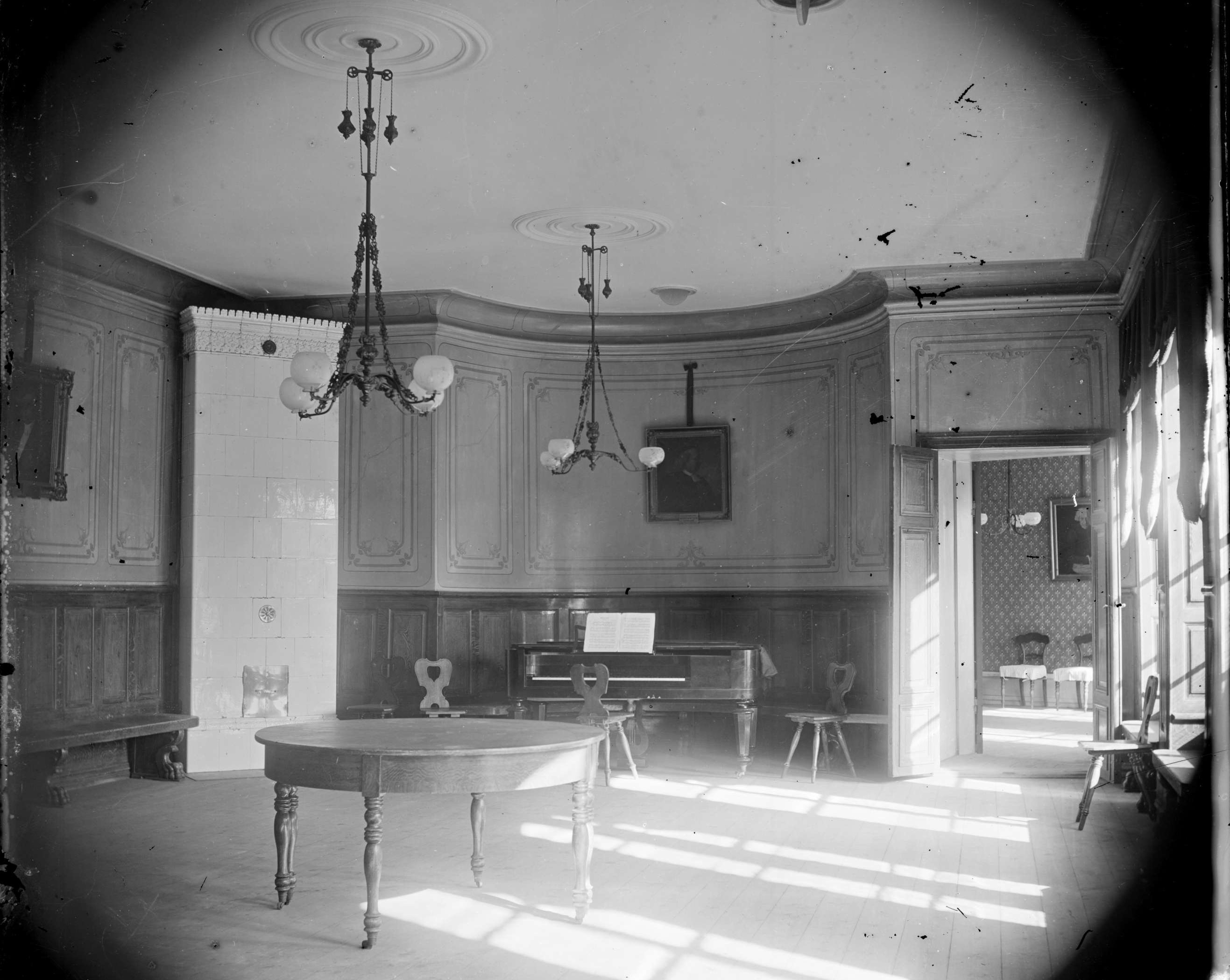 Östgöta Nations first nation house, Linné garden, interiör, Uppsala